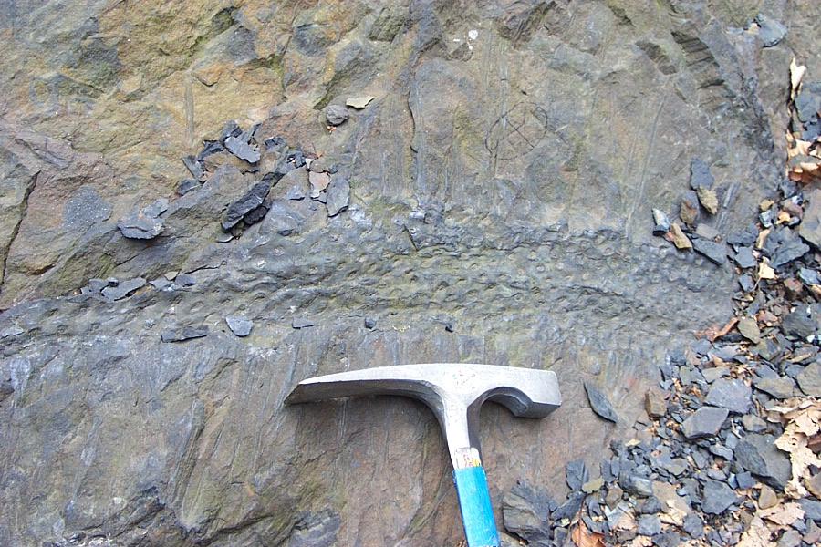 Sigillaria root from the Llewellyn Formation